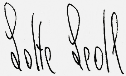 Autograph, September 1953, scanned from a page from an autograph book that is in the author's possession.